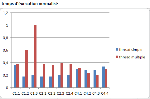 Résultat Culster3. test disque I/O